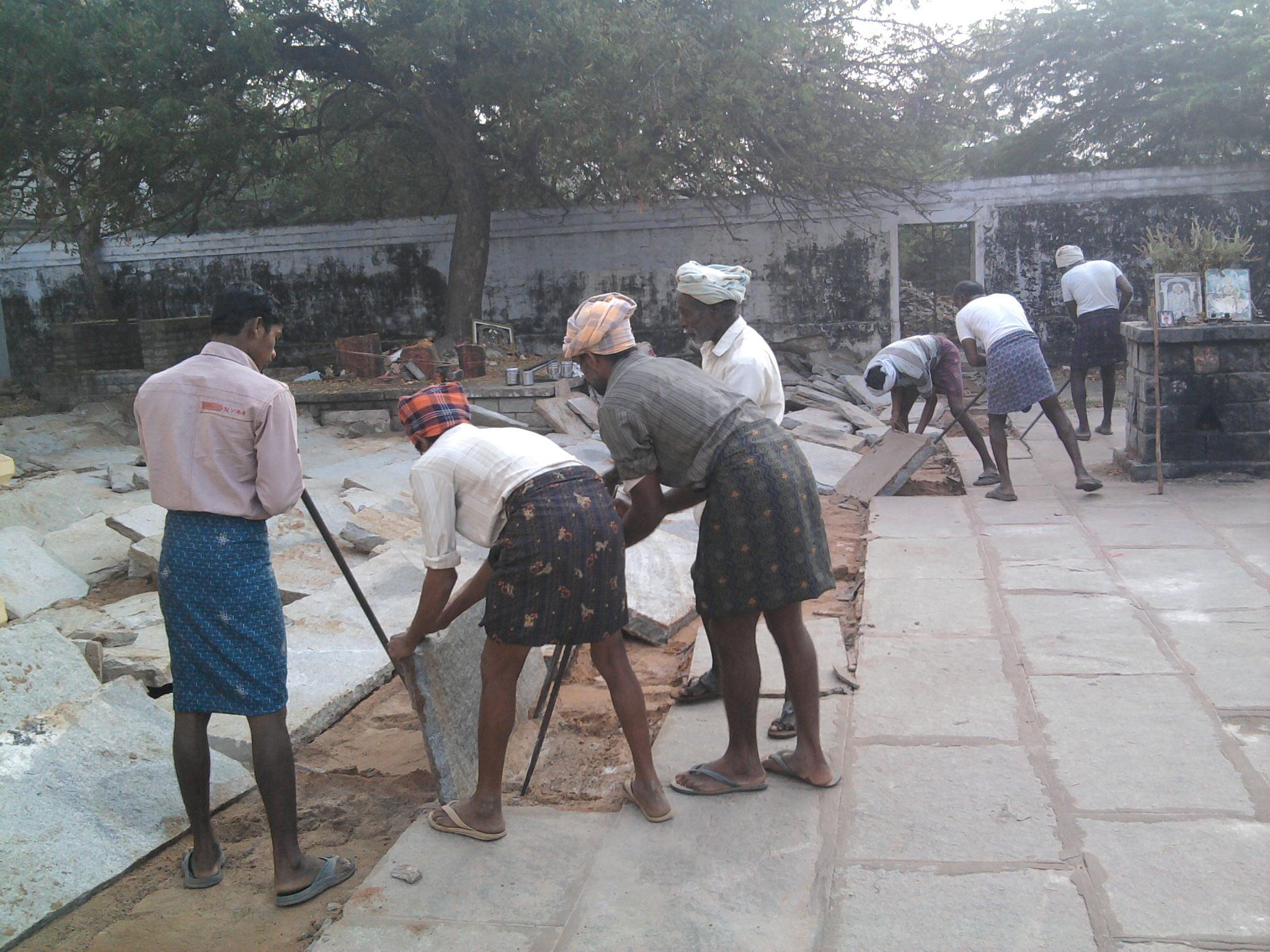 Big stones lifting with Crowbar at Vinjamoor, Nellore (dt), A.P. India.